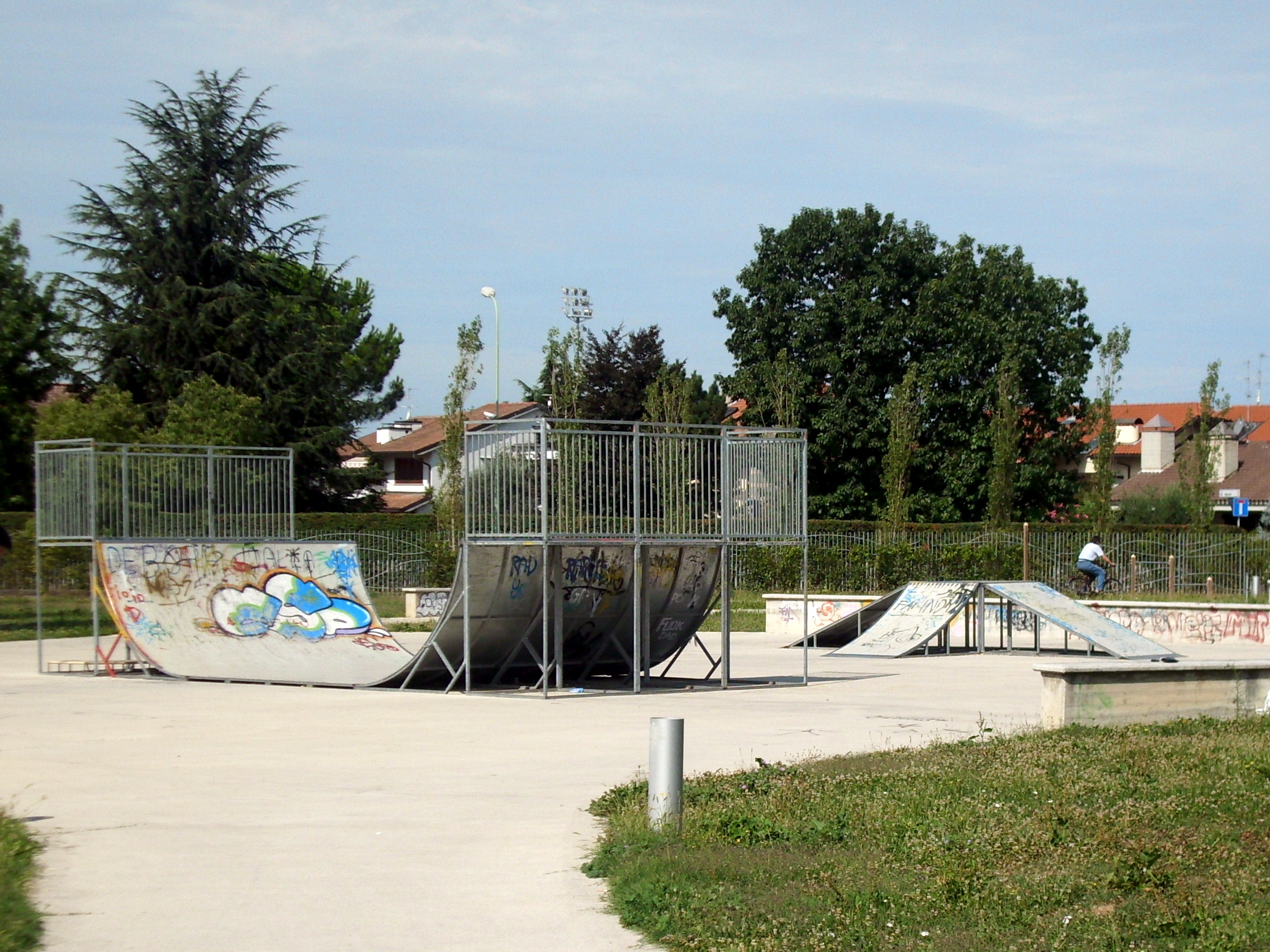 Azzano San Paolo, Bergamo, Italy - Skatepark